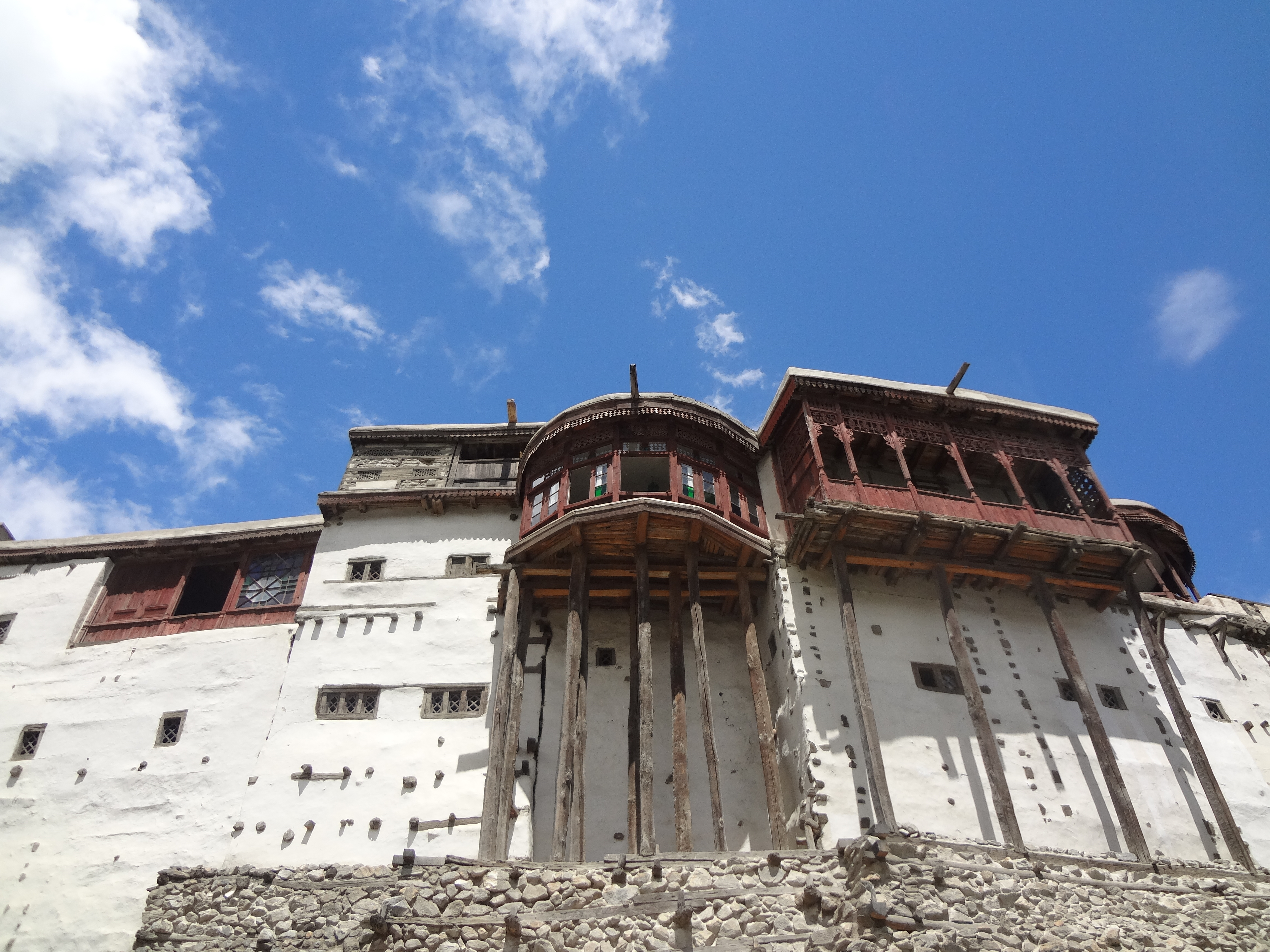 Baltit Fort is an ancient fort in the Hunza valley in Gilgit-Baltistan, Pakistan. Founded in the 1st CE, it has been on the UNESCO World Heritage Tentative list since 2004. It's a major attraction for the tourists that come to Hunza Valley, which is regarded as one of the most beautiful valleys in the World.